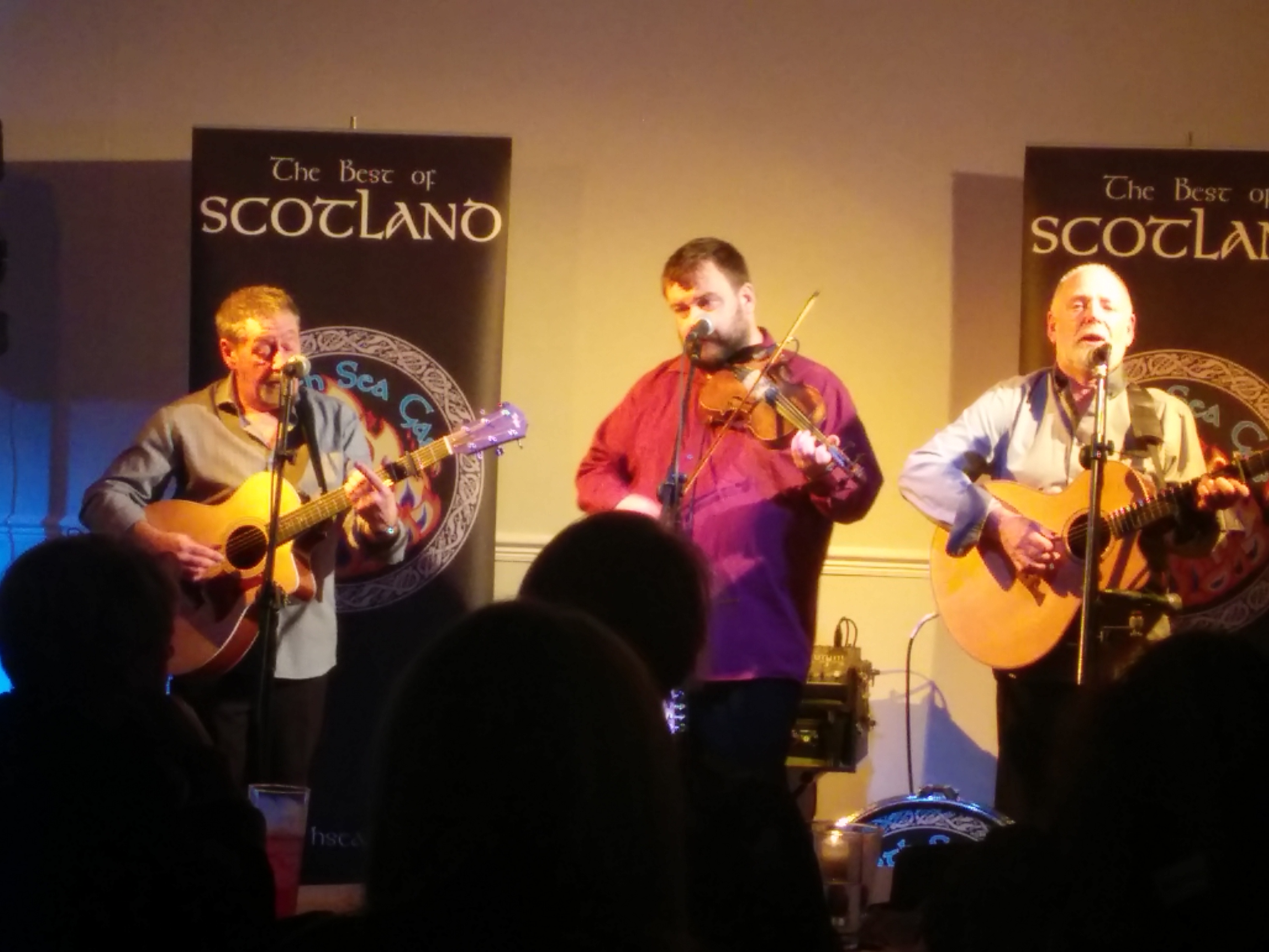 Scottish folk group.... North Sea Gas.... 31 December 2015 in Edinburgh